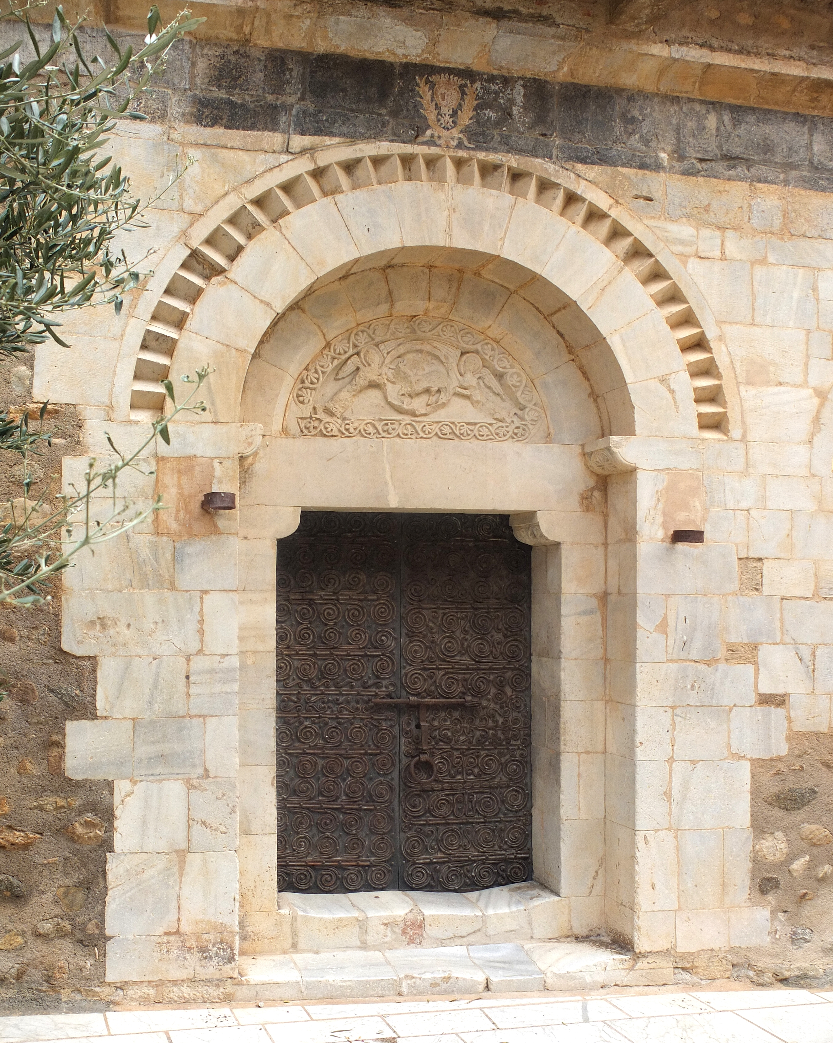 Portal of Église Notre-Dame, Saint-Féliu-d'Amont, Roussillon, France. Ministère de la Culture (France): Base Mémoire: APMH00255866